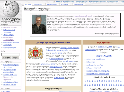 Screenshot of Georgian Wikipedia MP